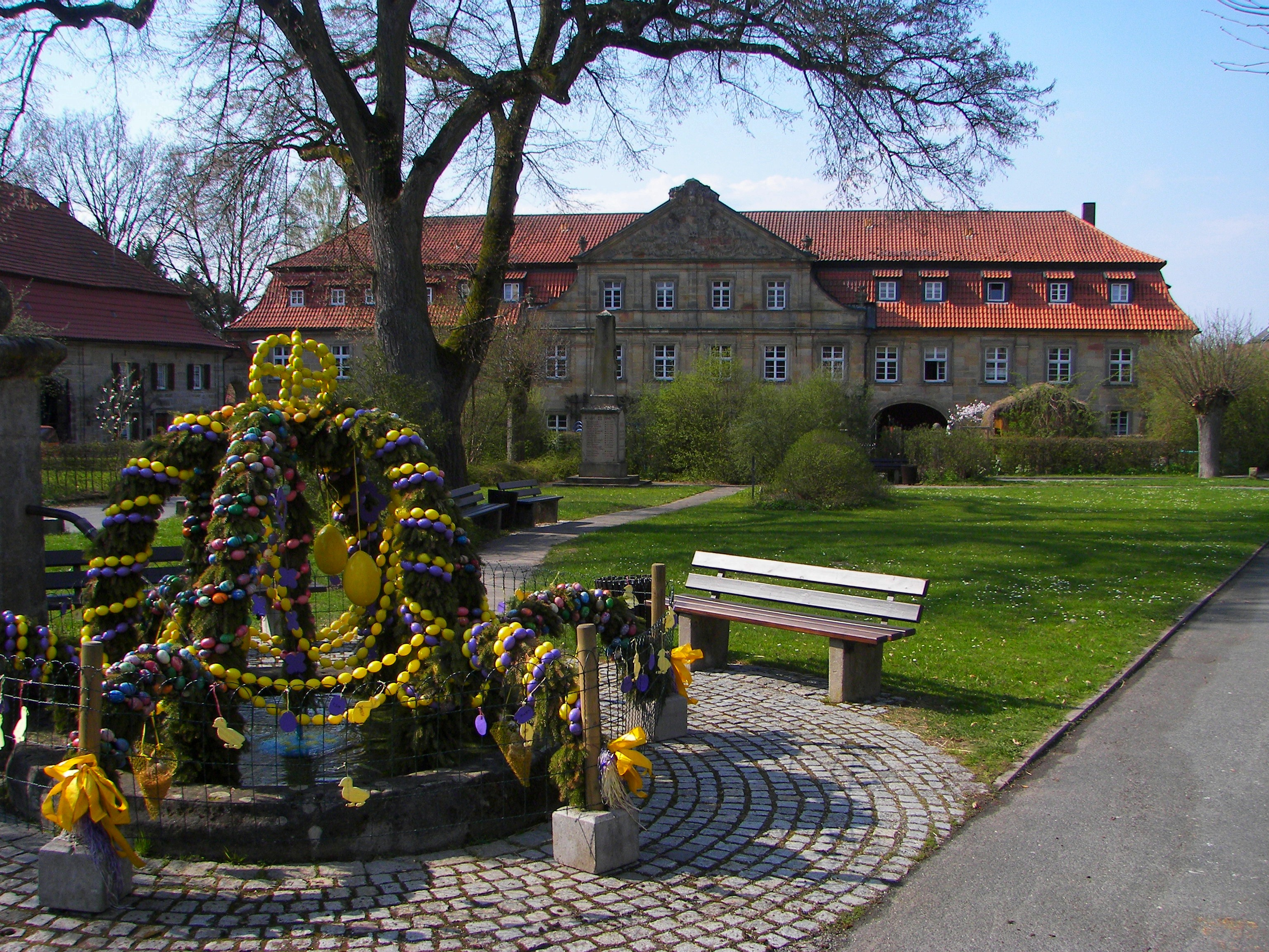 Ökonomiehof in Kloster Langheim with fountain decorated for Easter